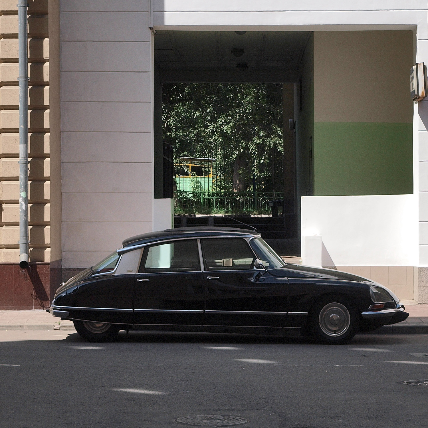 A Citroen DS parked in Mashkova Street, Moscow.